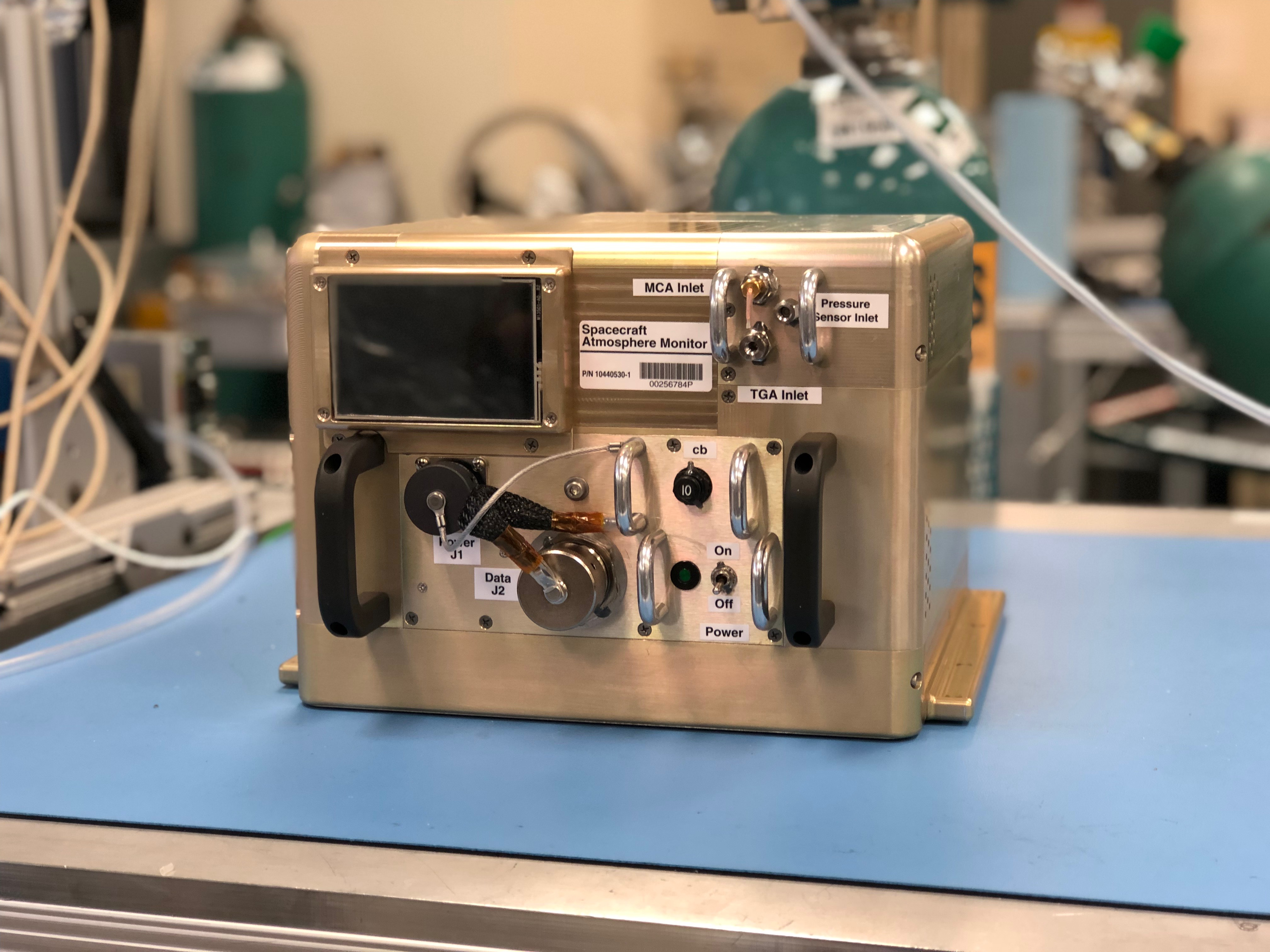 The Spacecraft Atmospheric Monitor is being tested on the ISS and is planned on being used during the Artemis program.